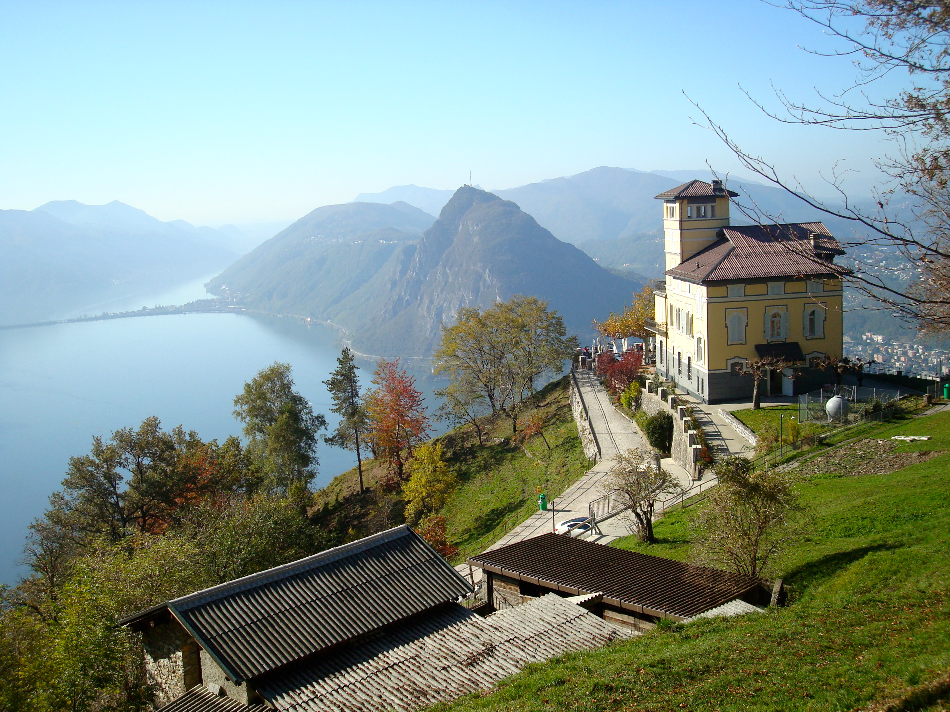 Lake Lugano from Monte Bre, Lugano, Ticino, Switzerland